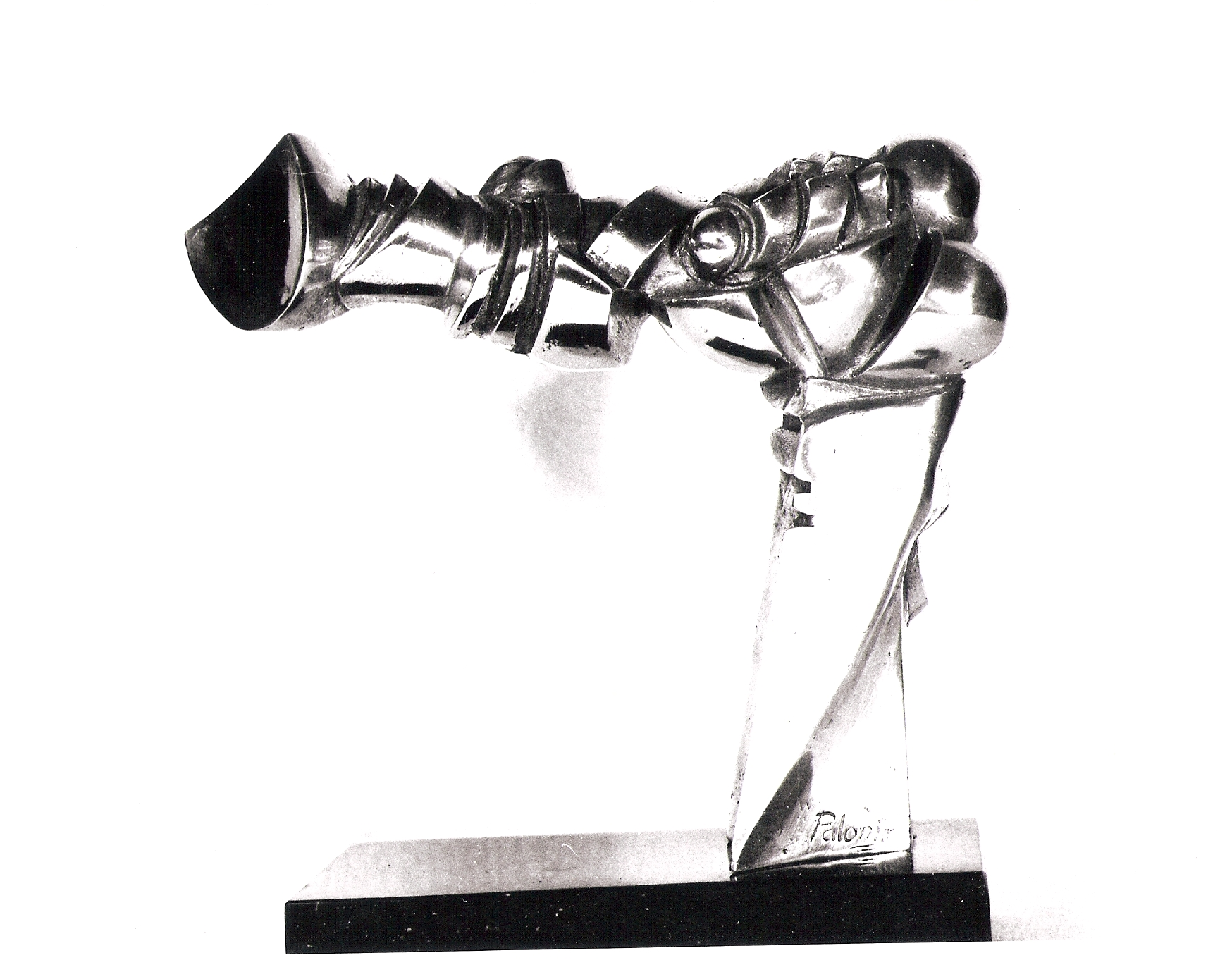 Sculpture by Juan Antonio Palomo